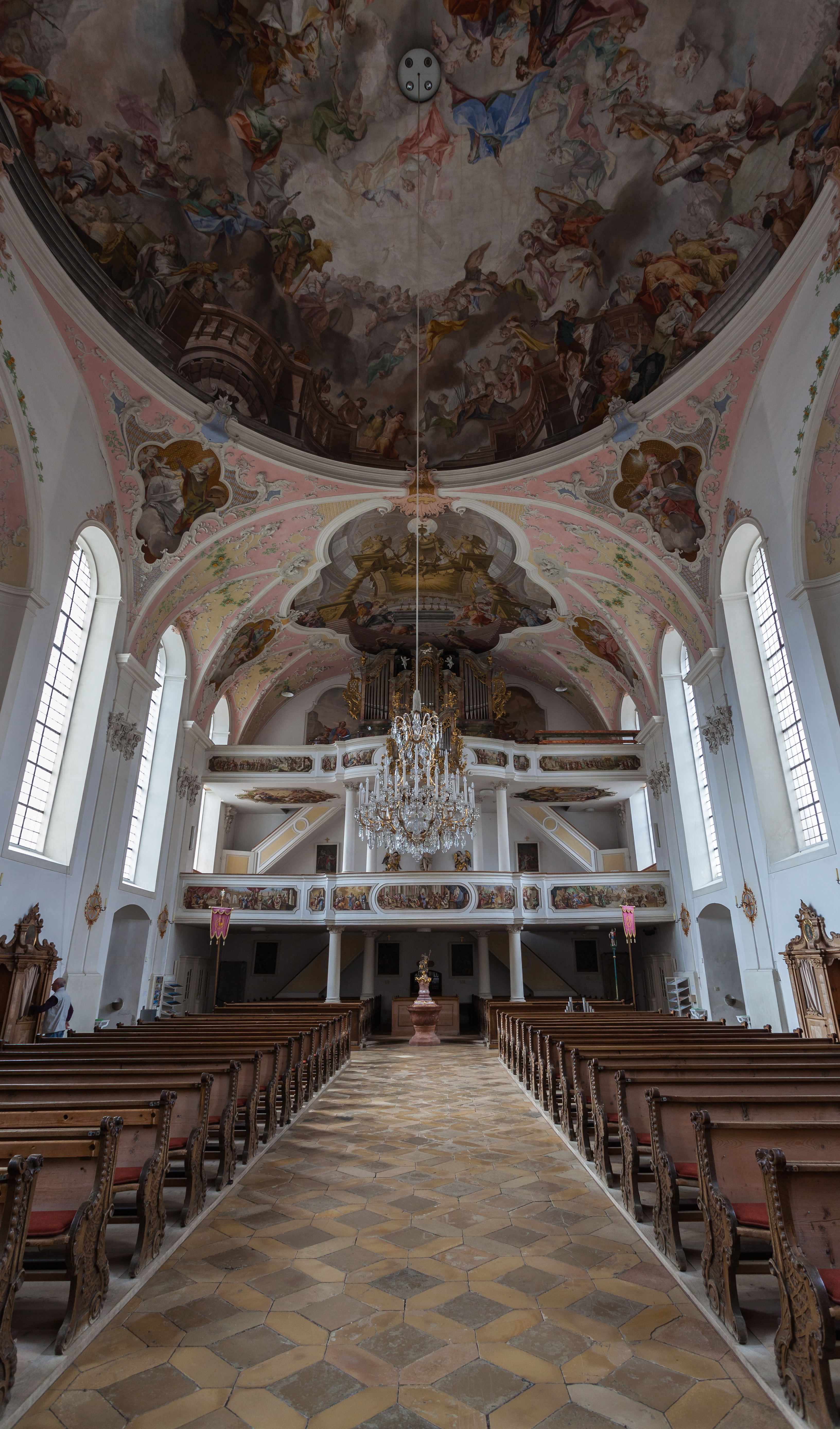 St. Peter and Paul church, Oberammergau, Bavaria, Germany